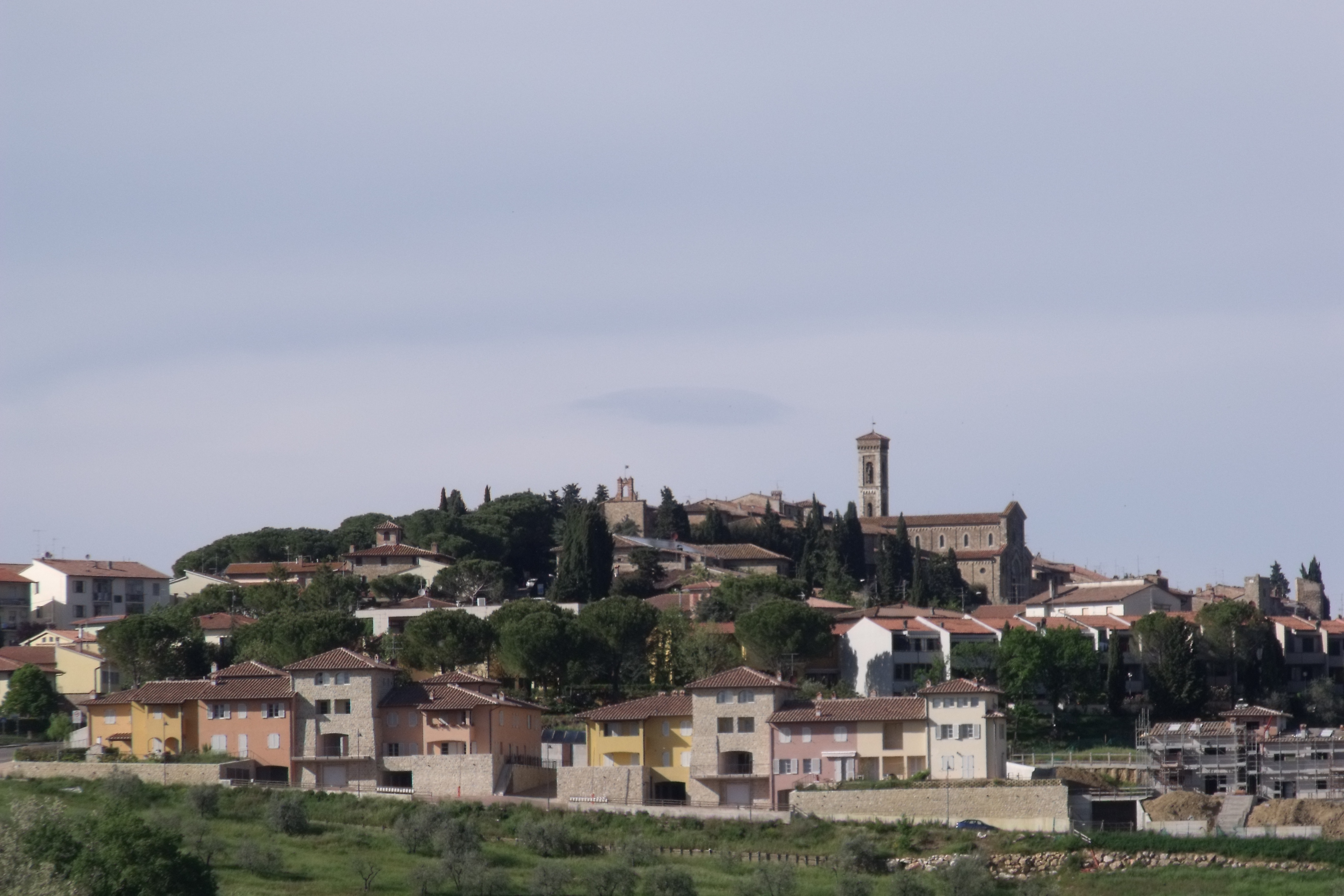 Panorama of Barberino Val d’Elsa in the Province of Florence, Tuscany, Italy